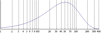 The logarithmic-scale probability density function for an exponential-decay process. The area under the curve between two points is proportional to the probability that the function has a value between those two points. Note that since the x-axis is distorted by the logarithmic scaling, the height is also distorted (compared to the conventional depiction of this function), in order for the area under the curve to be correct. This is supposed to demonstrate Benford's Law.